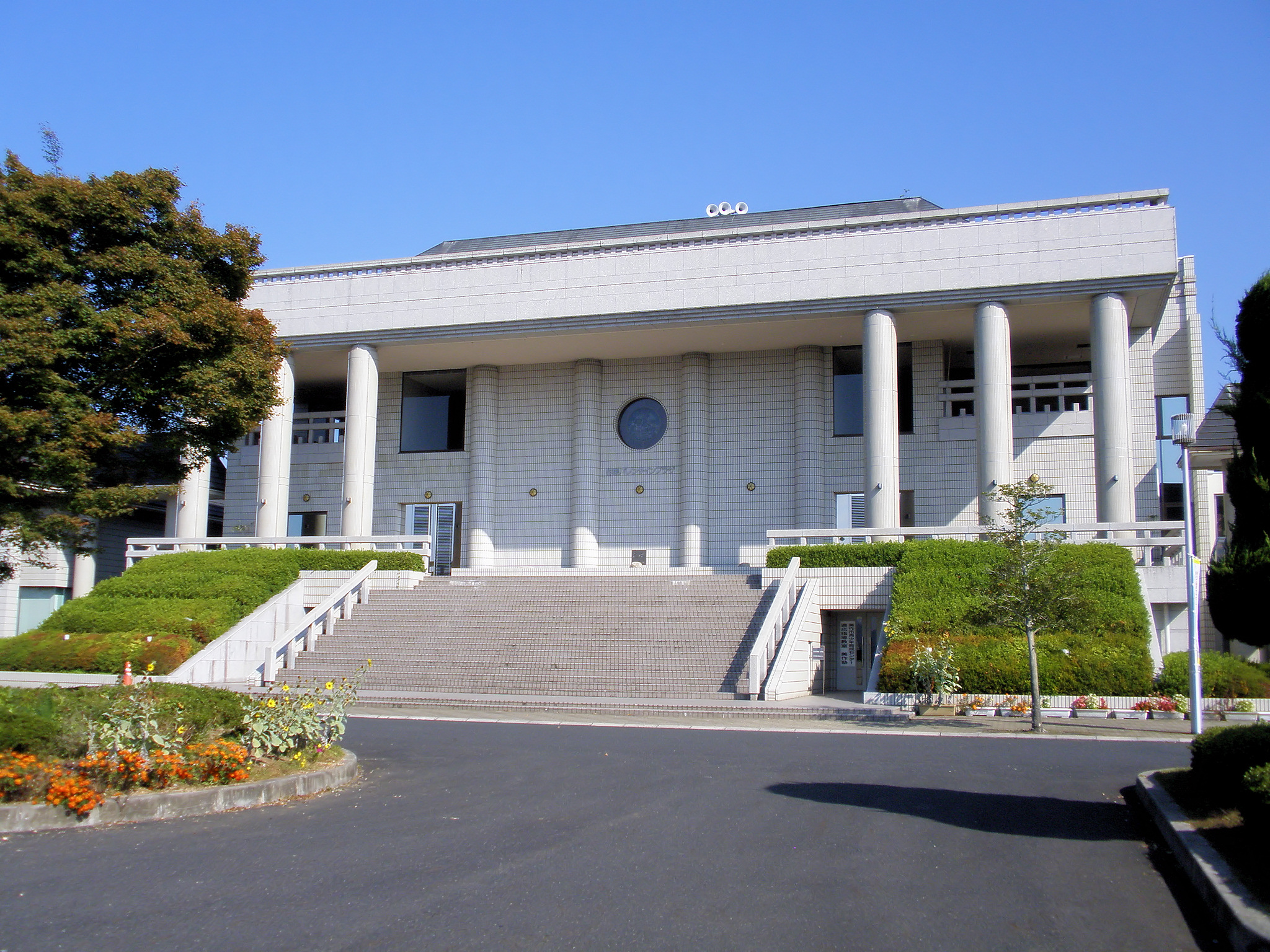 Sakuto Valentine Plaza.